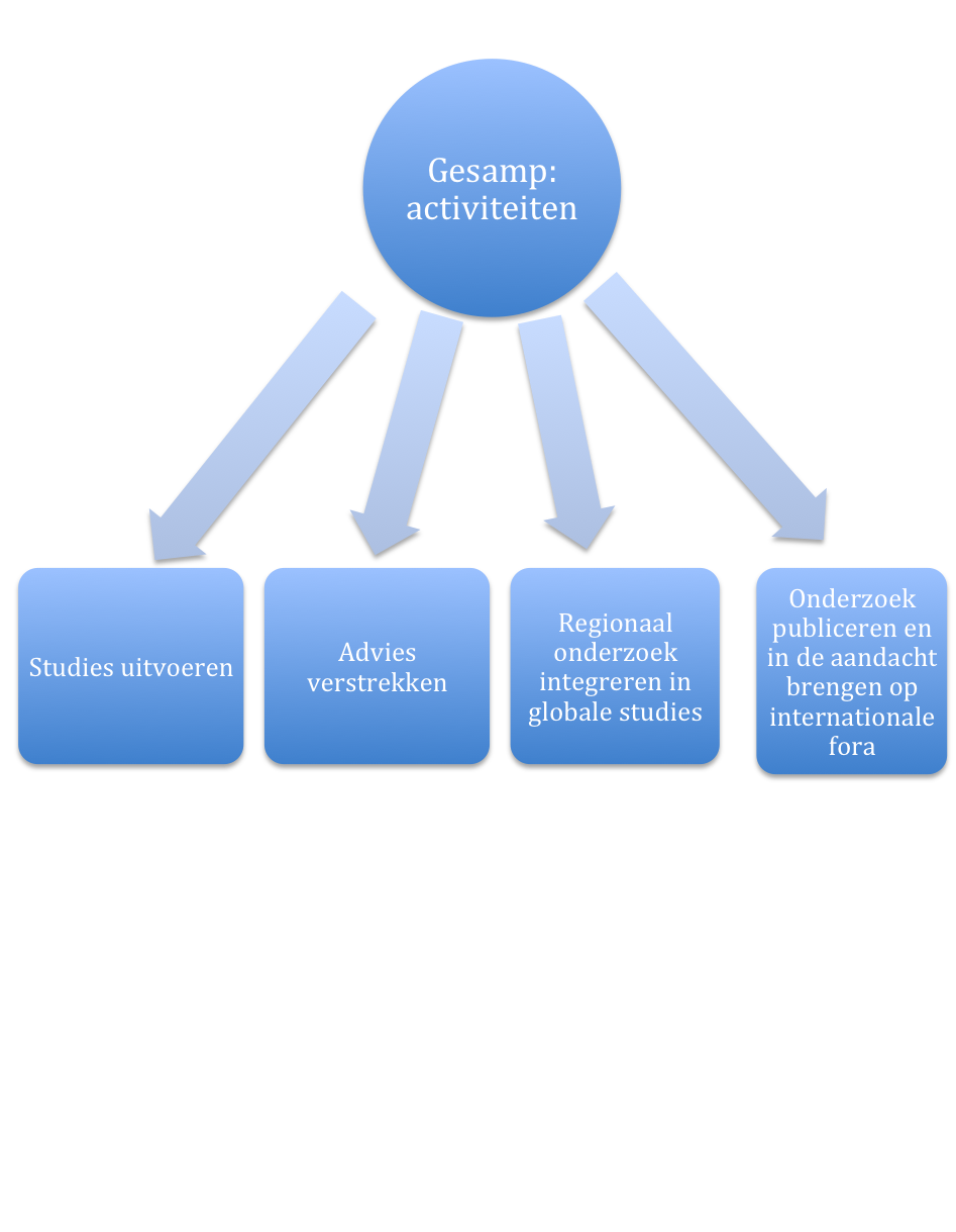 Activiteiten